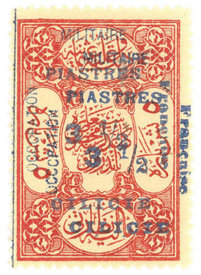 Stamp of French post in Cilicia (French Occupation), Ottoman Empire, 1920, an Ottoman Empire revenue stamp surcharged, blue double surcharge, 3 1/2pi on 5pa red, Scott #99c. Issued with surcharge misspelled “OCCCPATION.”